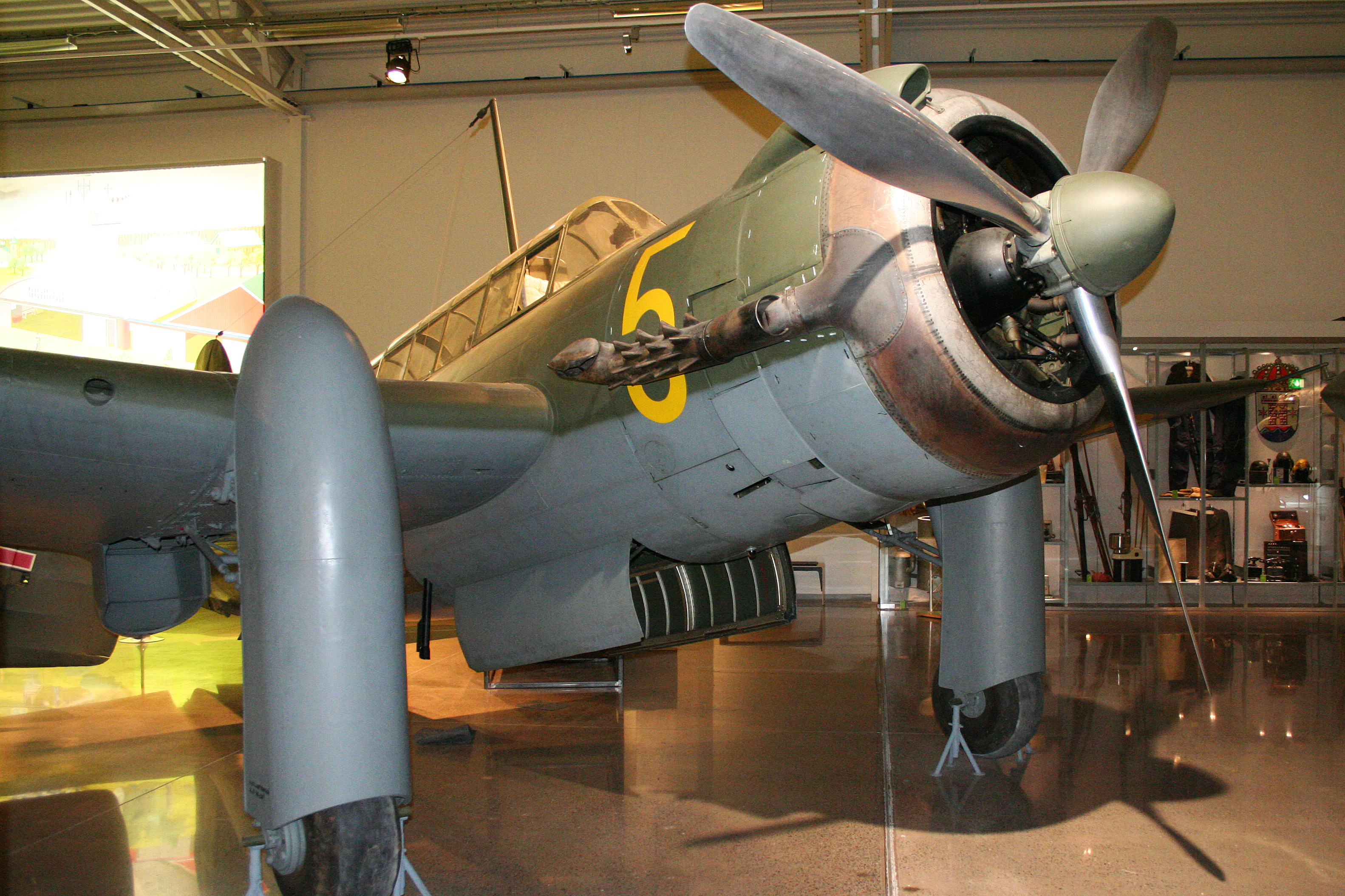 Designed as a dive-bomber, the museums B-17 is an S-17 reconnaissance version. Note the huge undercarriage covers, which doubled up as dive brakes. Like all the aircraft here, it is in perfect condition. msn 17005. Flyvapenmuseum, Malmen, Sweden. 04-06-2012